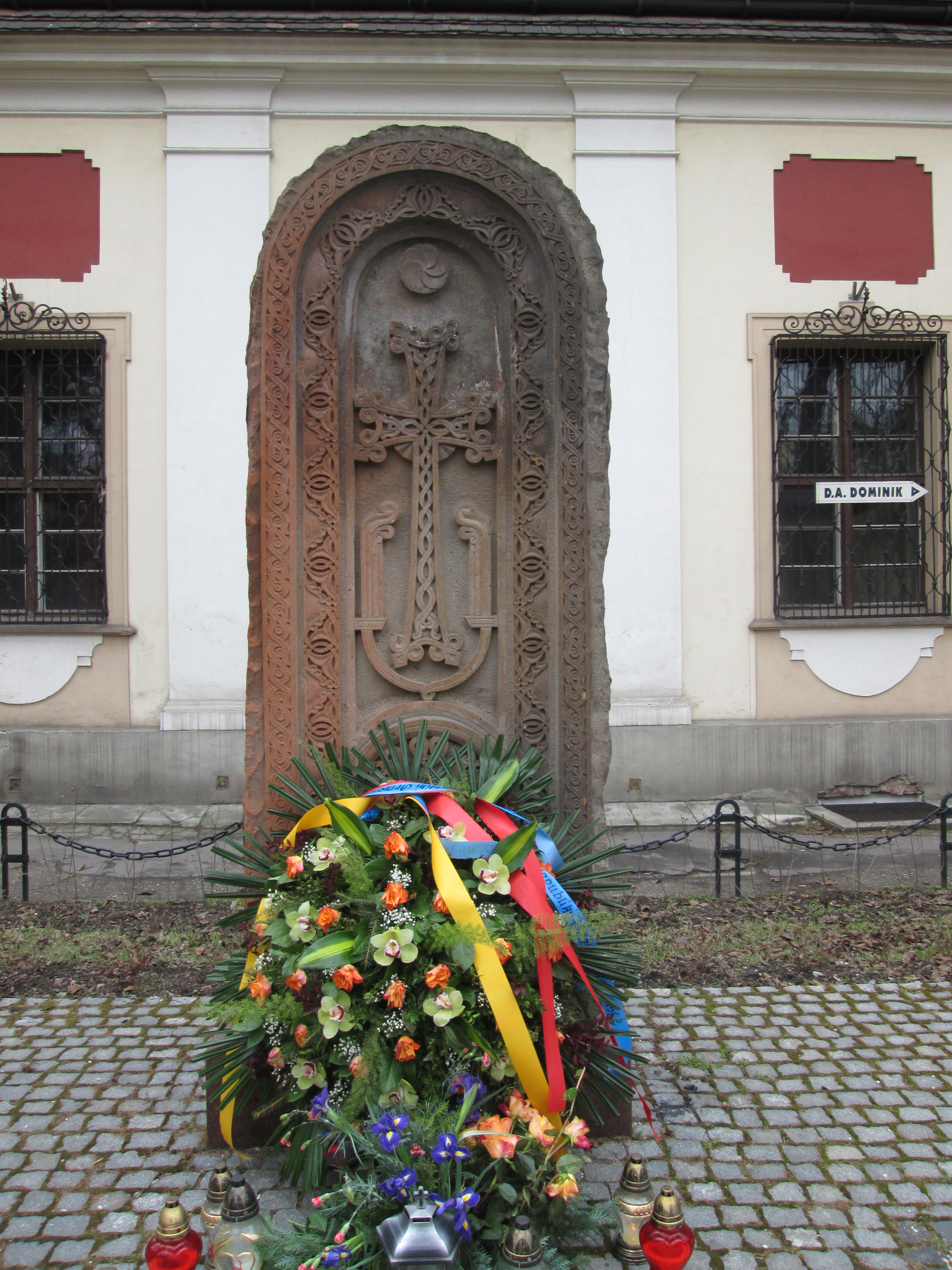 Armenian Genocide Khachqar, Wroclaw